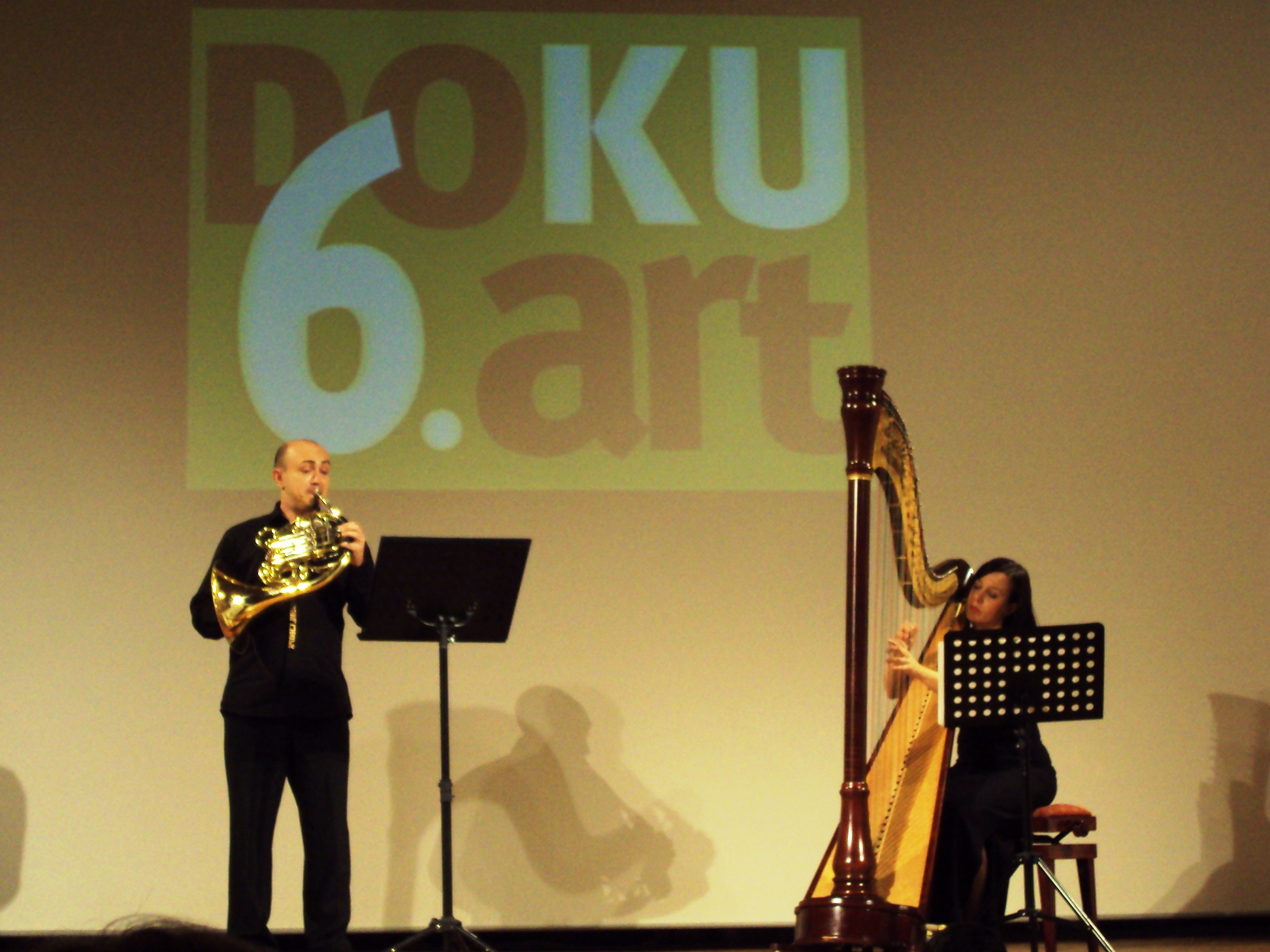 Ceremony of opening 6. DOKUart - Documentary Film Festival in Bjelovar, Croatia